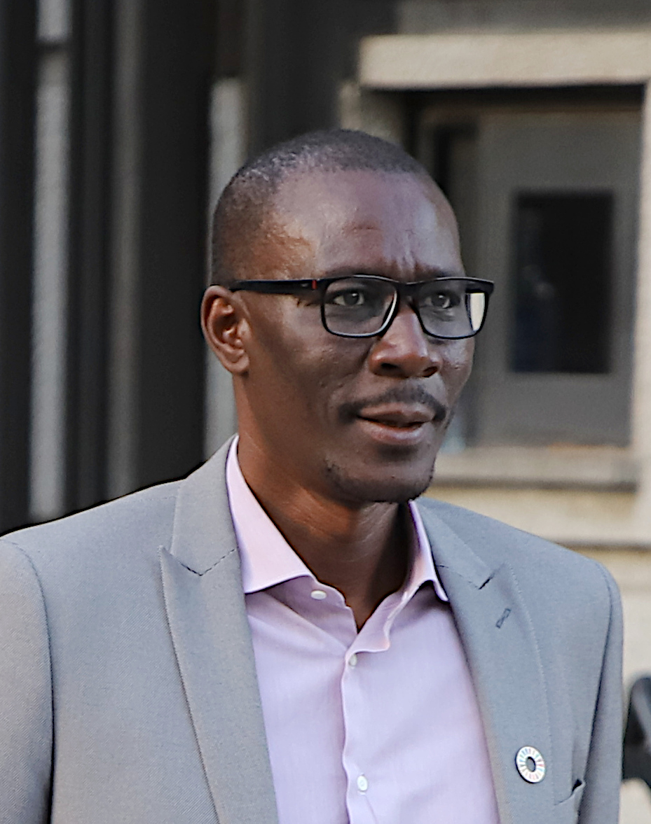 Luc André Diouf Dioh leaves the Parliament building after the extraordinary "Open Arms" Congress session.